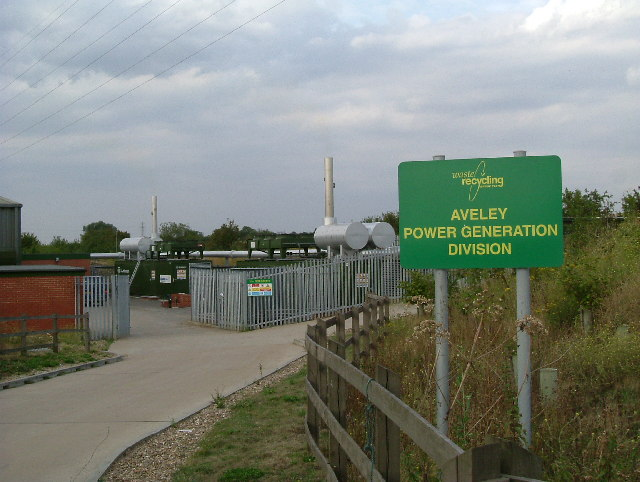 Methane from Muck. This plant in Sandy Lane Aveley Essex collects methane from covered over landfill sites. The gas produced was piped to the Thames Board Mill in Purfleet. The mill is in the process of closing so new markets will need to be found for the gas. The plant has the advantage of preventing gas from leaking into nearby homes.